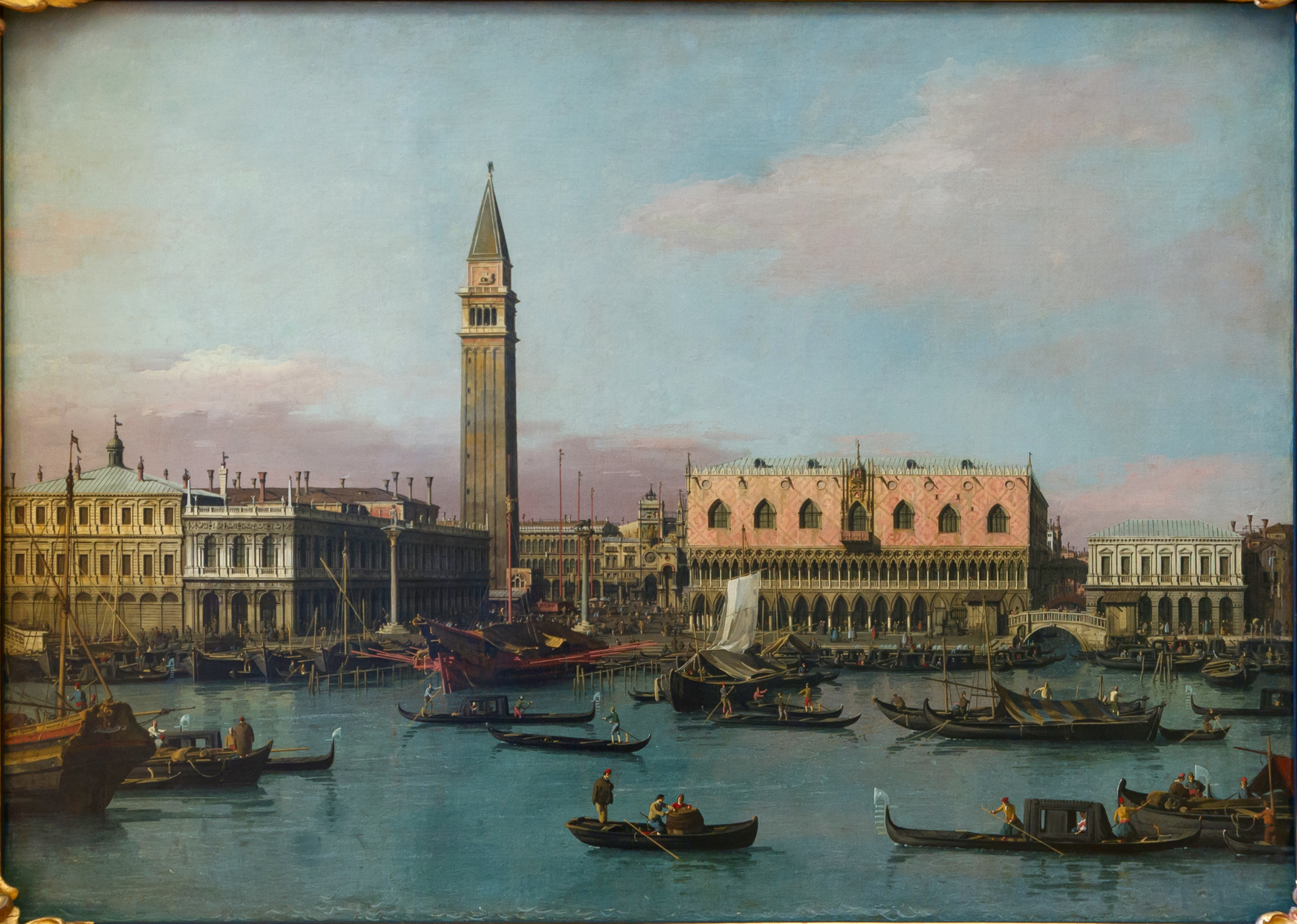 Piazzetta and Riva degli Schiavoni, Venice